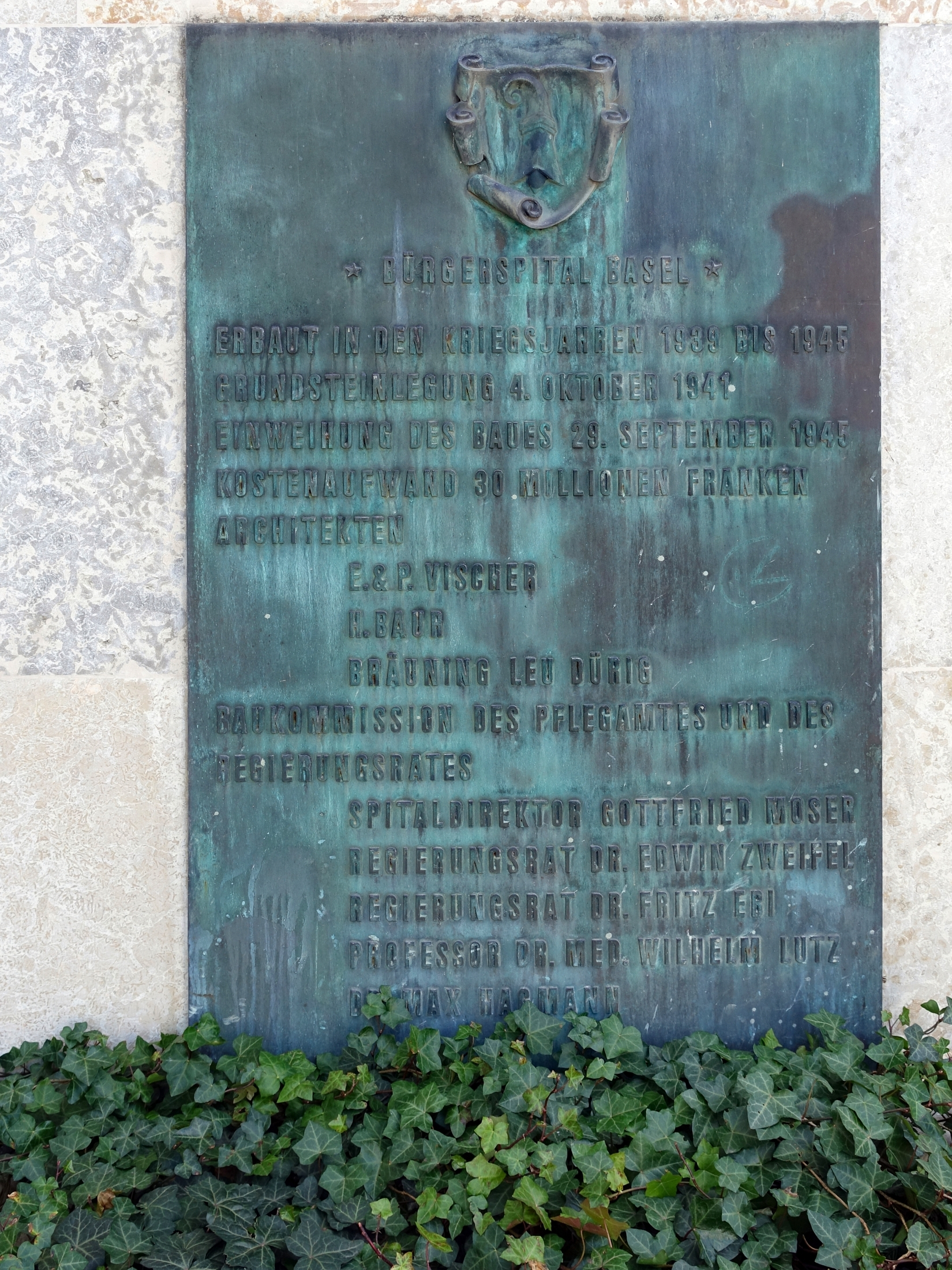 Universitätsspital Basel, ehemals Bürgerspital Basel erbaut 1939-1945. Grundsteinlegung 4. Oktober 1941. Einweihung des Baues 29. September 1945. Kosten 30 Millionen Schweizer Franken. Architekten E.&P. Vischer, H.Baur, Bräuning Leu Dürig.